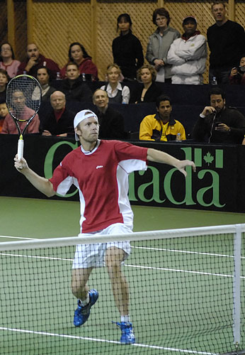 Frédéric Niemeyer (Canada) during 2009 Davis Cup against Ecuadpr.